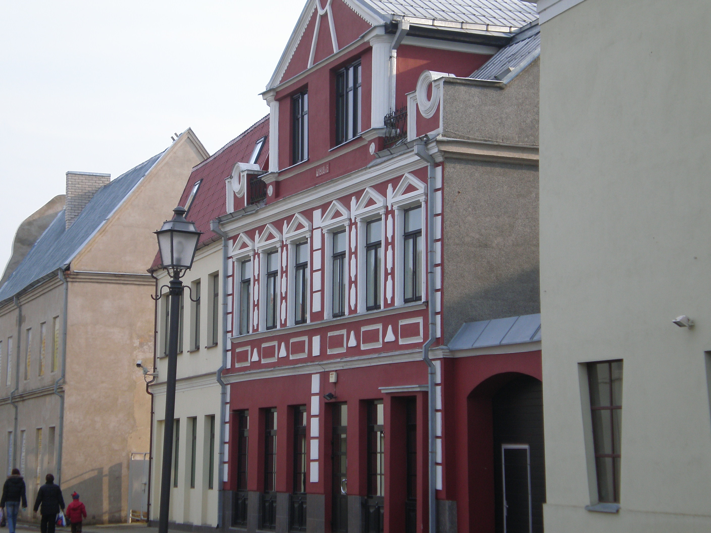 Kėdainiai Old Town. The oldest city pharmacy